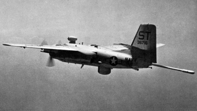 A U.S. Navy Grumman S2F-1 Tracker (BuNo 136716) from Anti-Submarine Squadron VS-38 "Red Griffins" in flight. VS-38 was assigned to the aircraft carrier USS Hornet (CVS-12) for a deployment to the Western Pacific from 3 April to 10 October 1959.